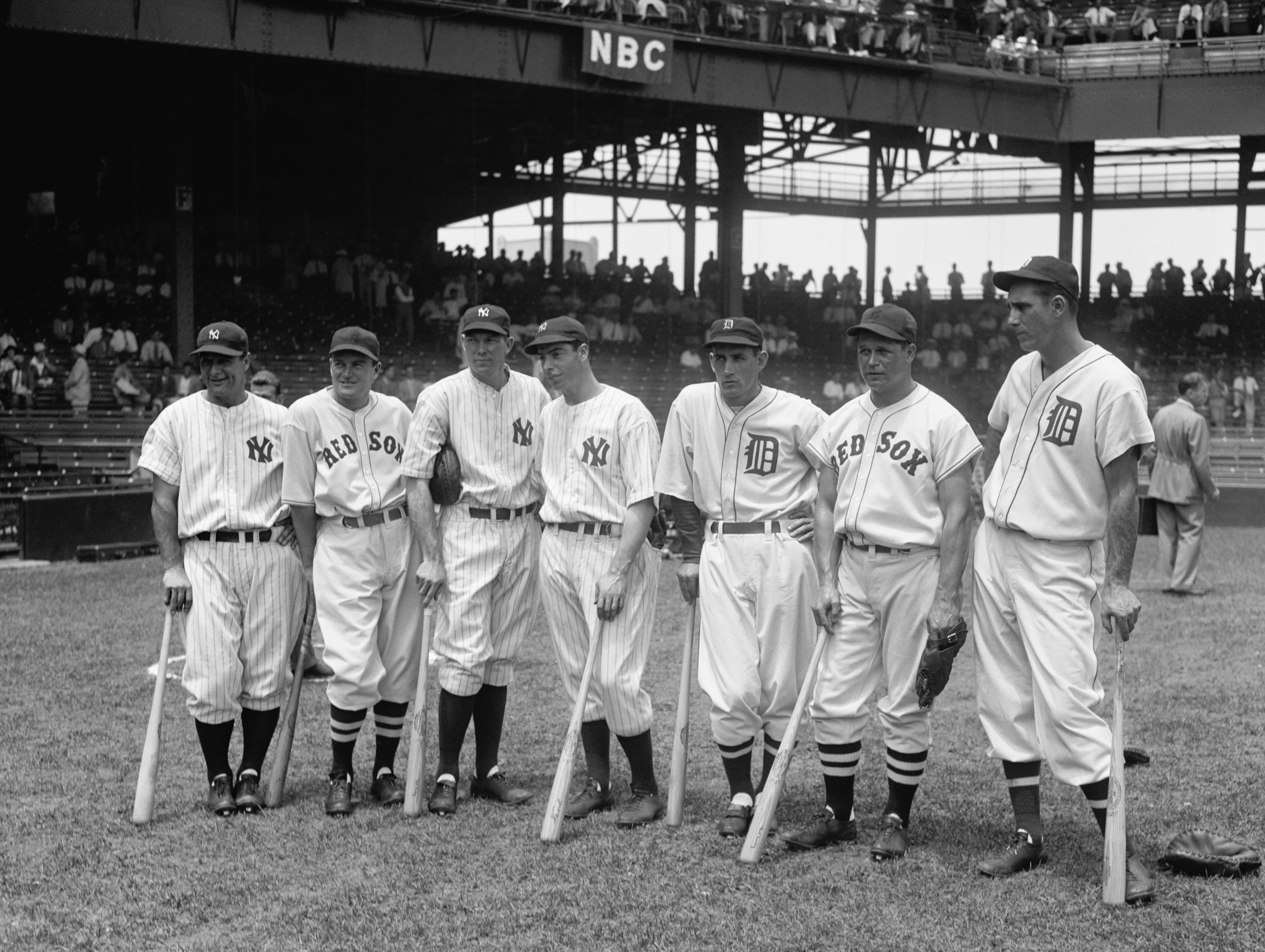 Original caption: "Plenty of basehits in these bats — Washington D.C., July 7. A million dollar base-ball flesh is represented in these sluggers of the two All- Star Teams which met in the 1937 game at Griffith Stadium today. Left to right: Lou Gehrig, Joe Cronin, Bill Dickey, Joe DiMaggio, Charlie Gehringer, Jimmie Foxx, and Hank Greenberg, 7/7/37"